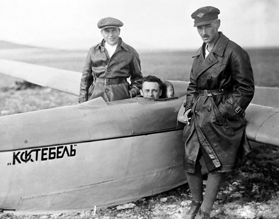 Candid photo of master Russian rocket scientist Sergey Korolyov